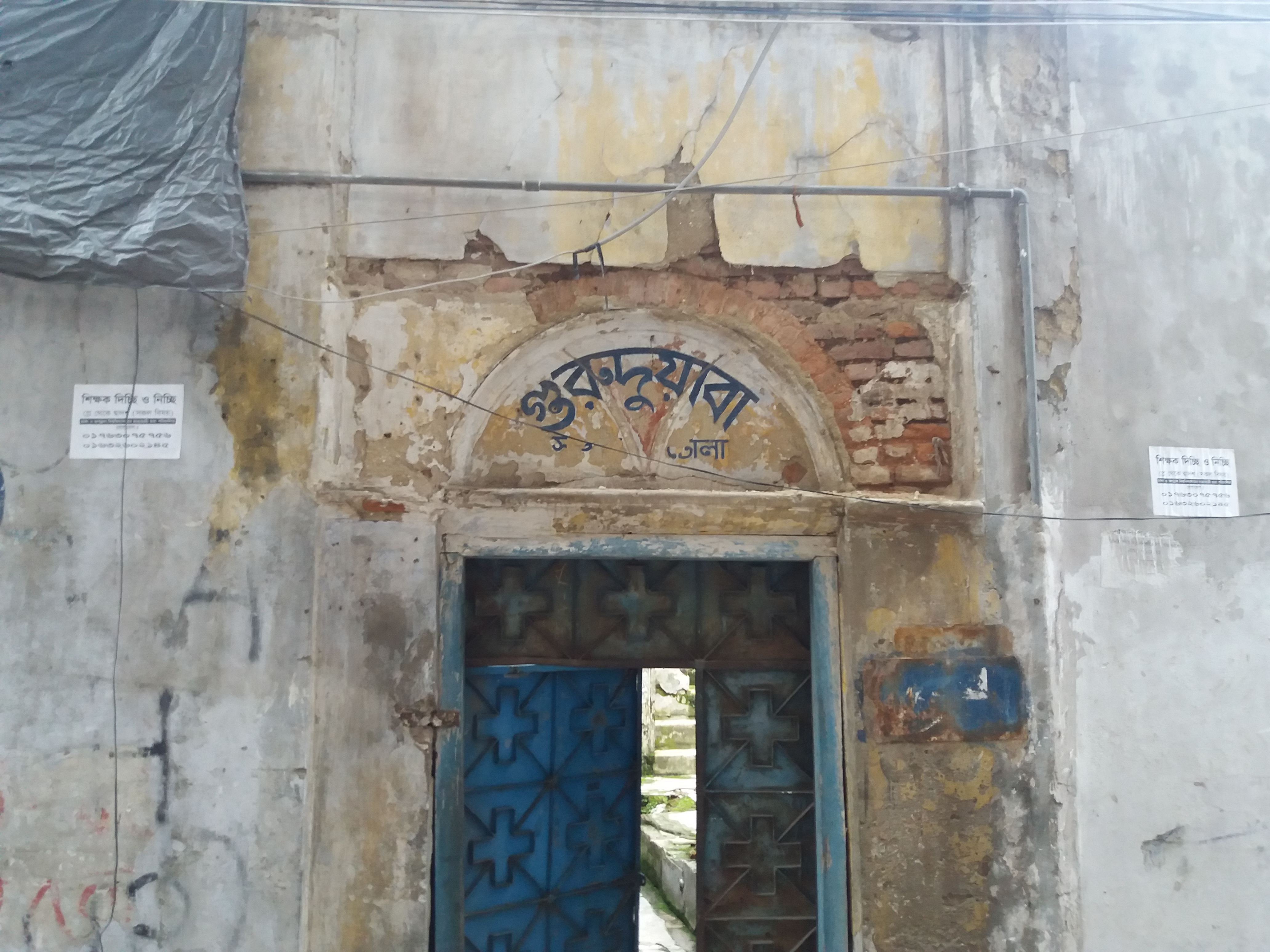 গুরুদুয়ারা সঙ্গতটোলা, ঢাকার বাংলাবাজারে অবস্থিত একটি শিখ উপাসনালয়